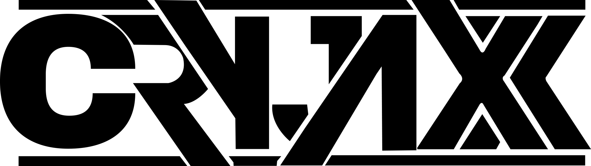 the black logo of Cryjaxx